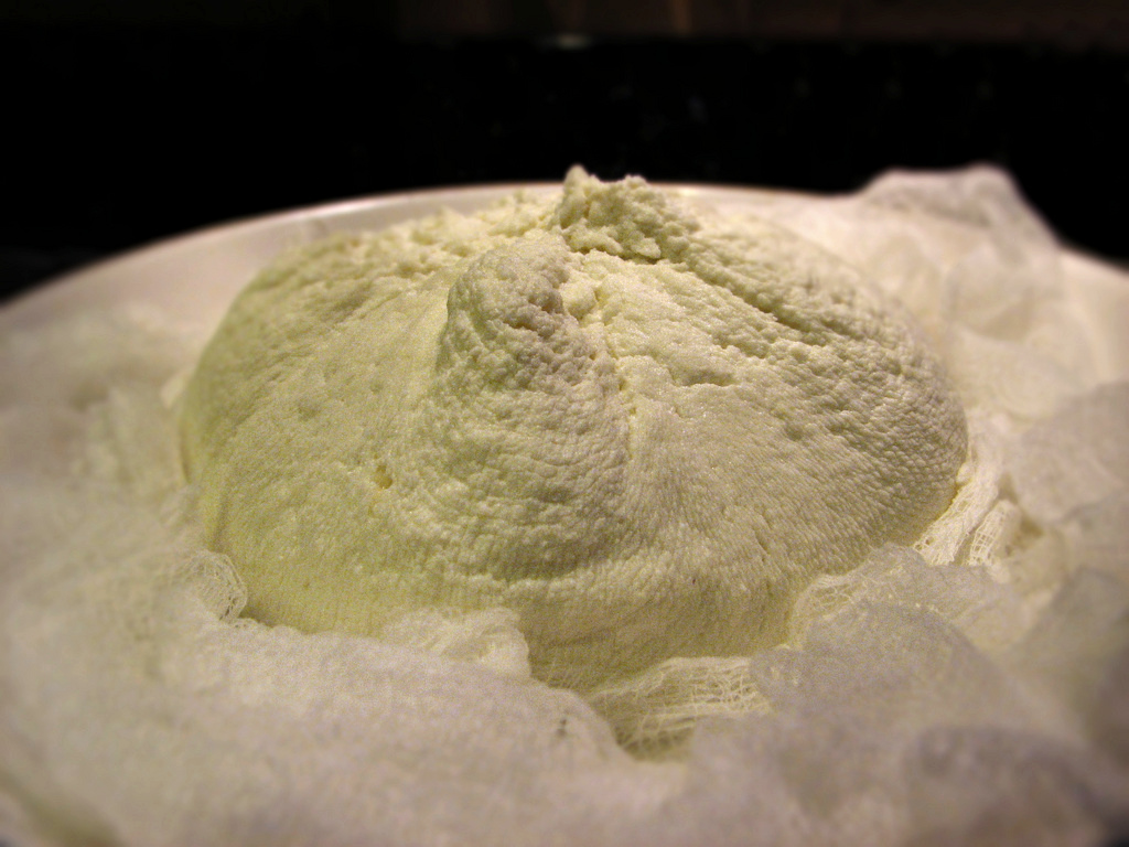 Mexican style Queso Fresco (Queso Blanco), wrapped in the cheese cloth that was used to press the curds.